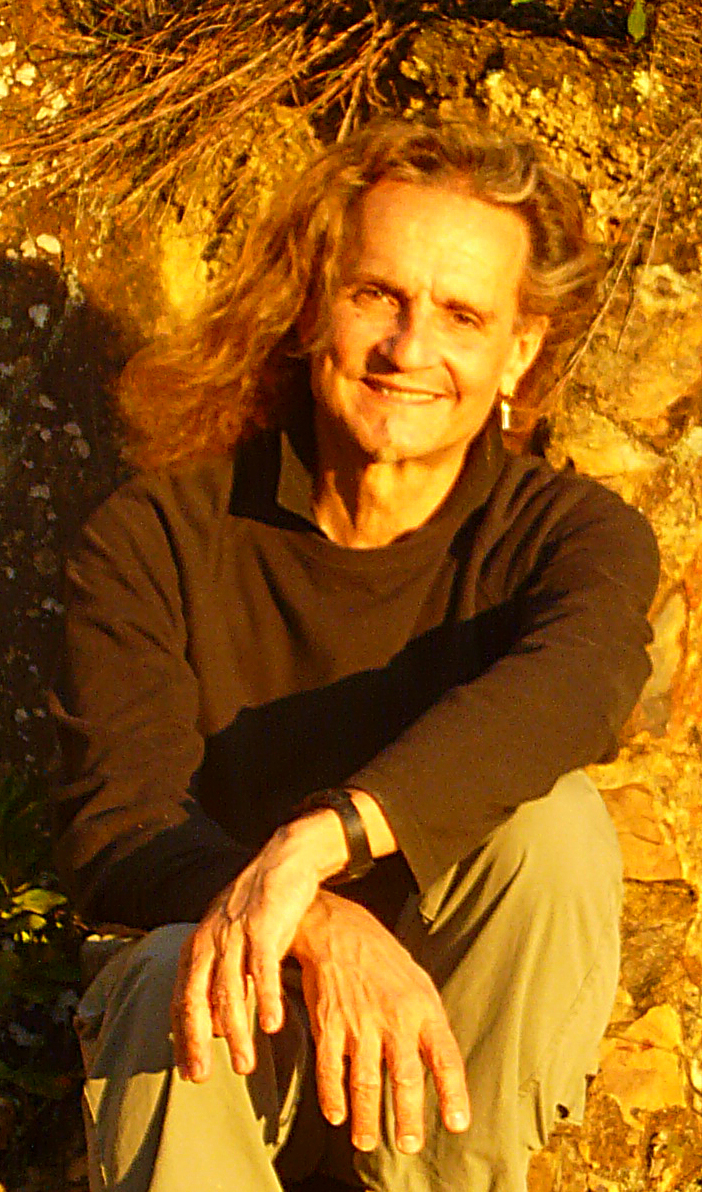 ZAMOR, Guillerm in 2011